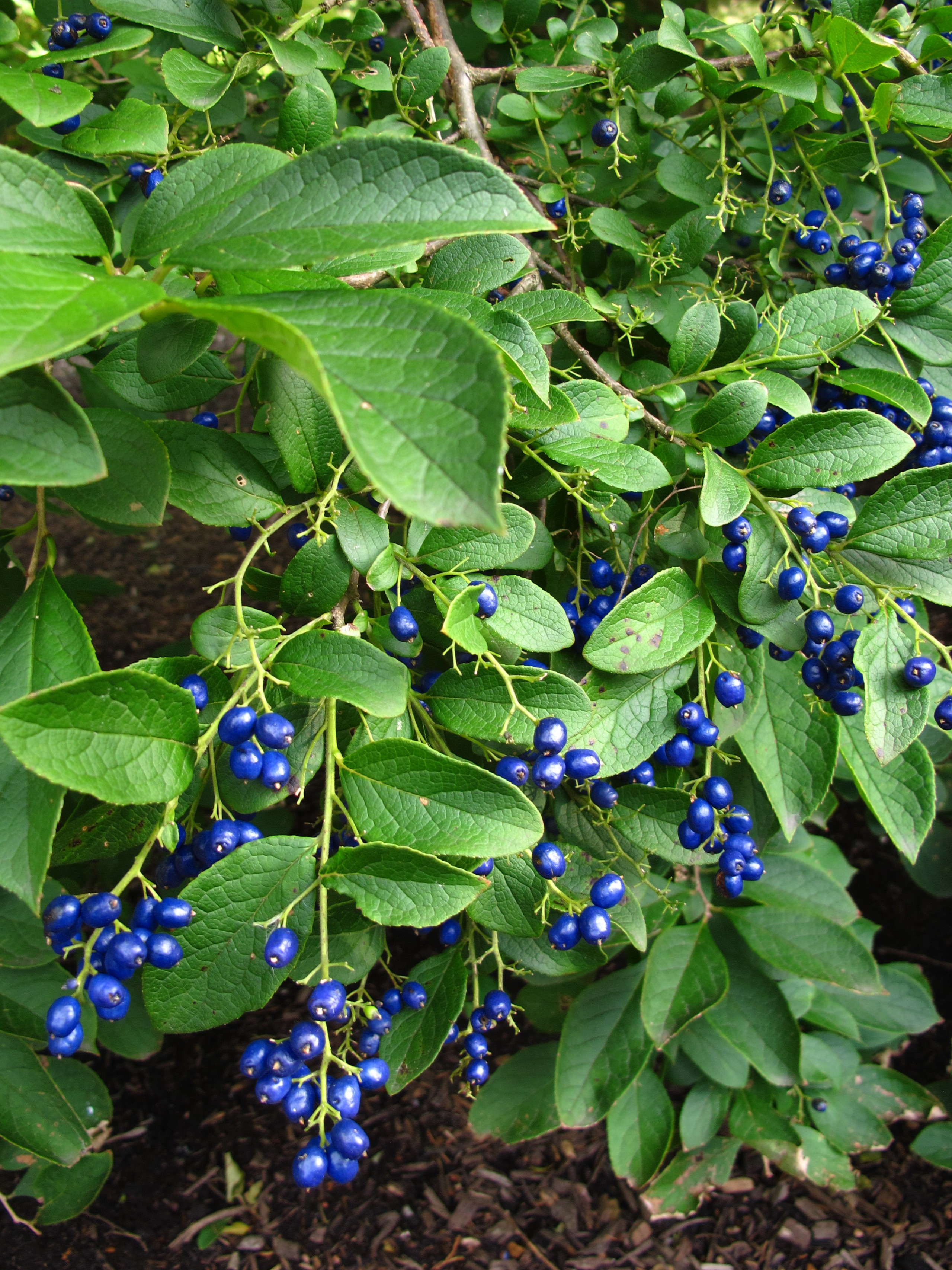 Symplocos paniculata Miq. - Asiatic sweetleaf - New York Botanical Garden